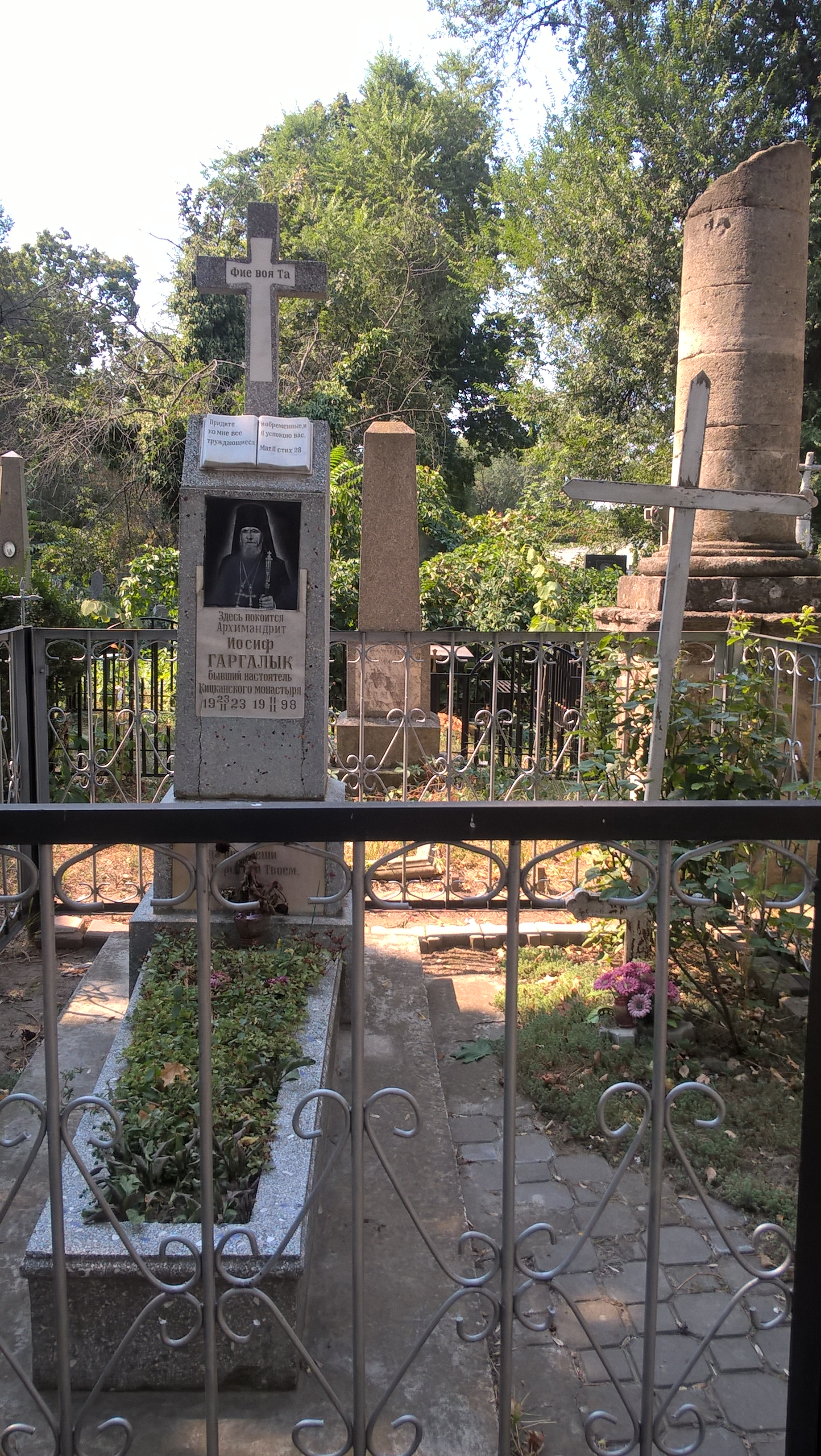 Gravestone of hegumen Joseph (Gagarlic), Central Cemetery in Chisinau